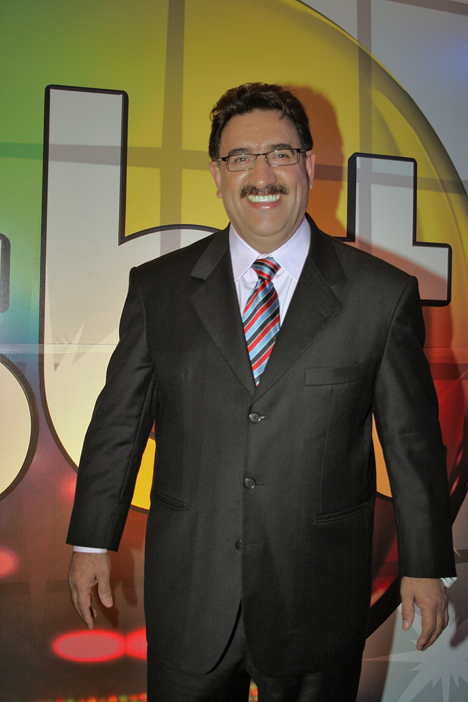 Television presenter of Brazil Ratinho.